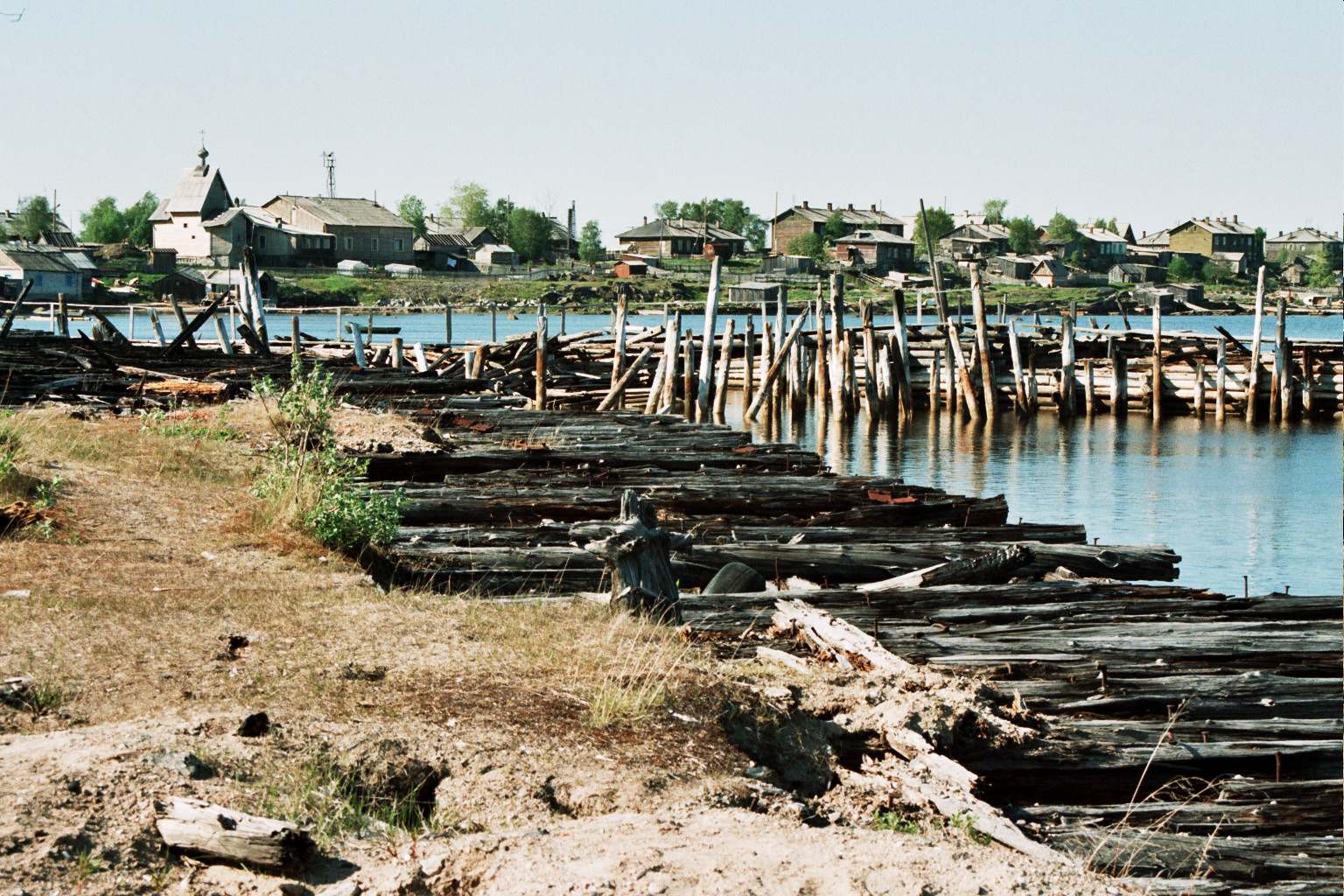 Harbor of Kem